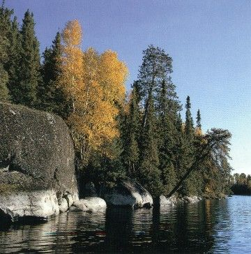 Boundary Waters Canoe Area Wilderness